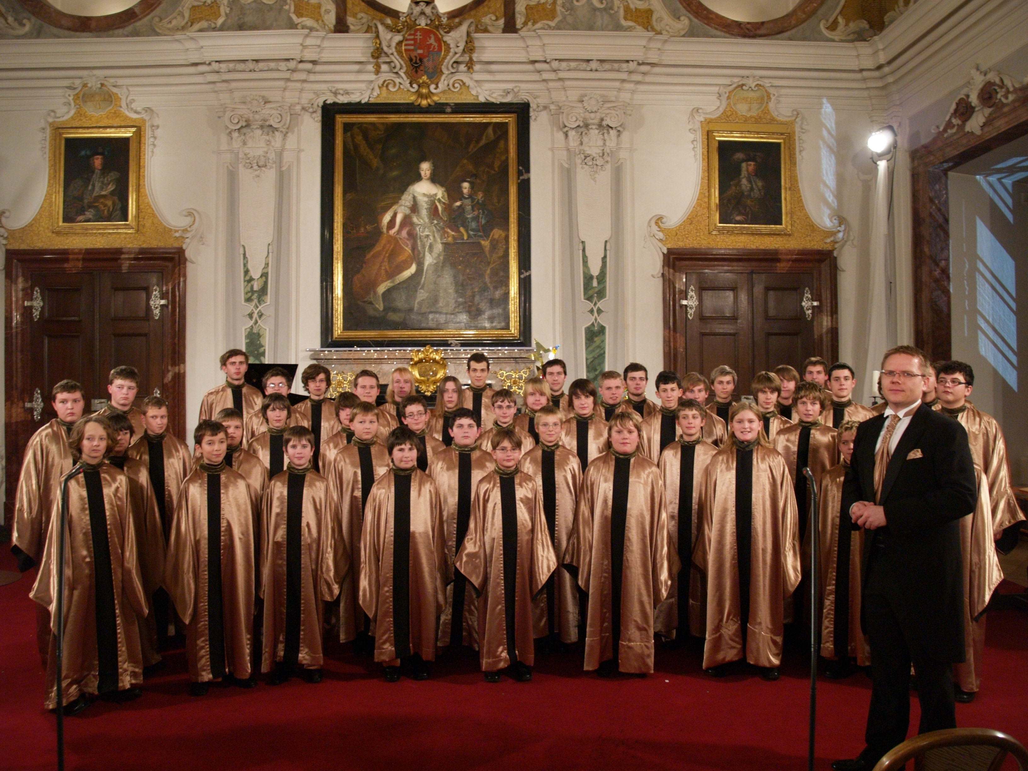 The Czech Boys Choir with conductor Jakub Martinec at Brevnov Monastery, Prague.